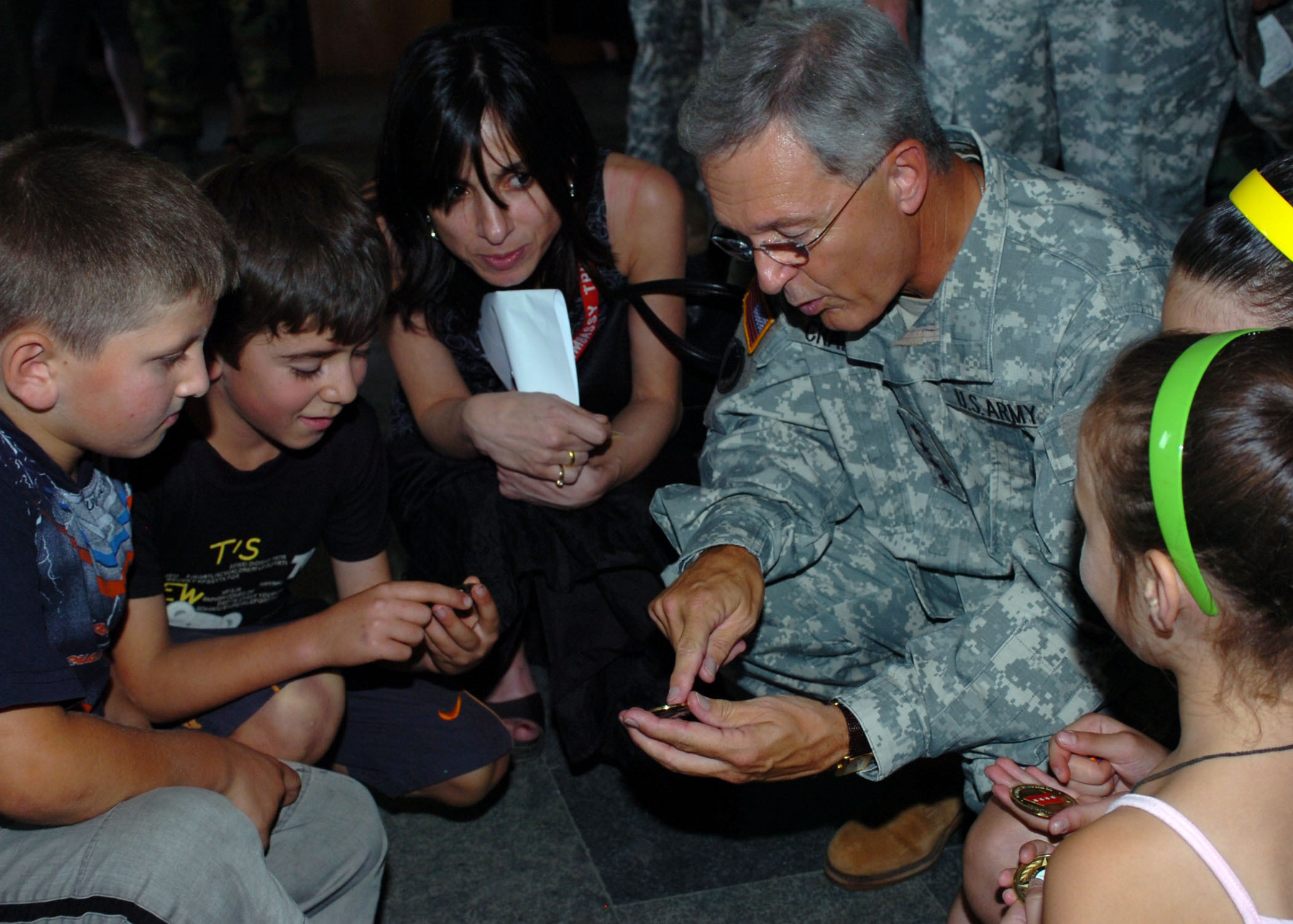 GEN Craddock, Commander United States European Command speaks to a Georgian children who are sheltered at a Republic of Georgia internally displaced people facility. At the request of the government of Georgia, the United States is providing humanitarian assistance to the people of Georgia.